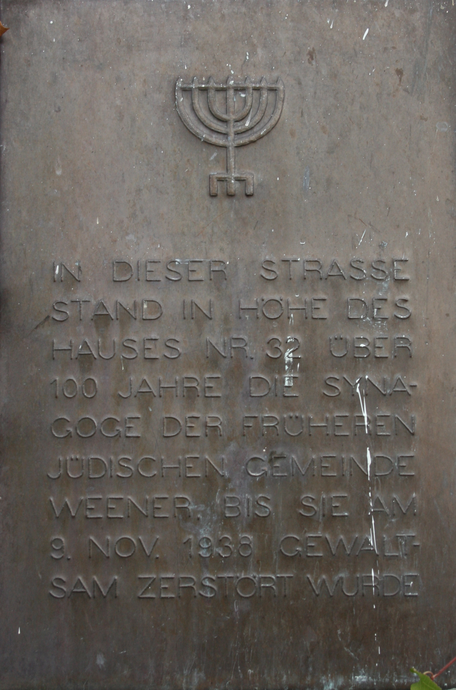 jewish memorial in Emden